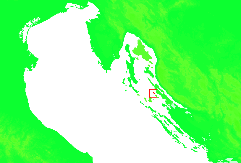 Island of Croatia Croatia - Škrda.PNG